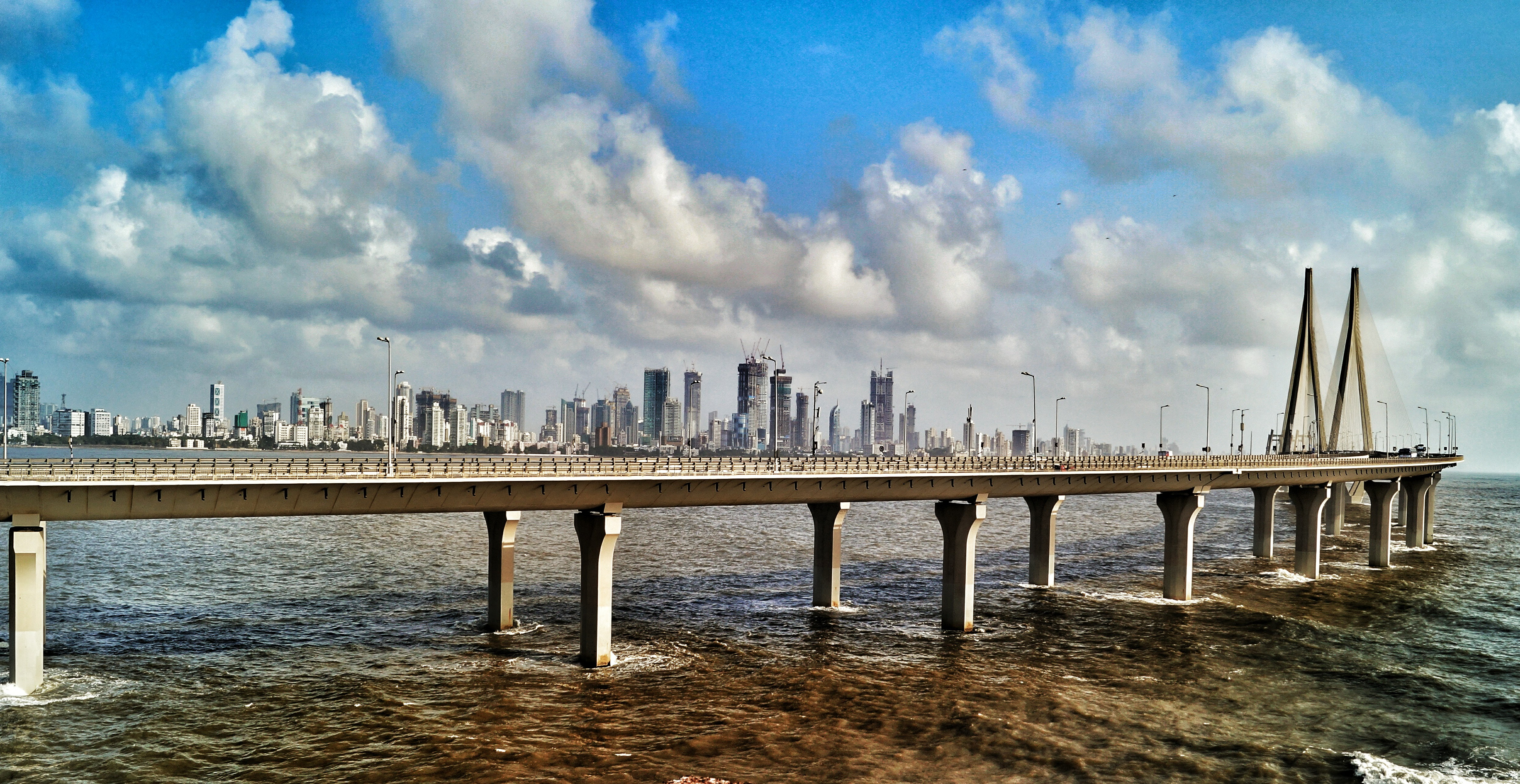 The Bandra-Worli Sealink in Mumbai.